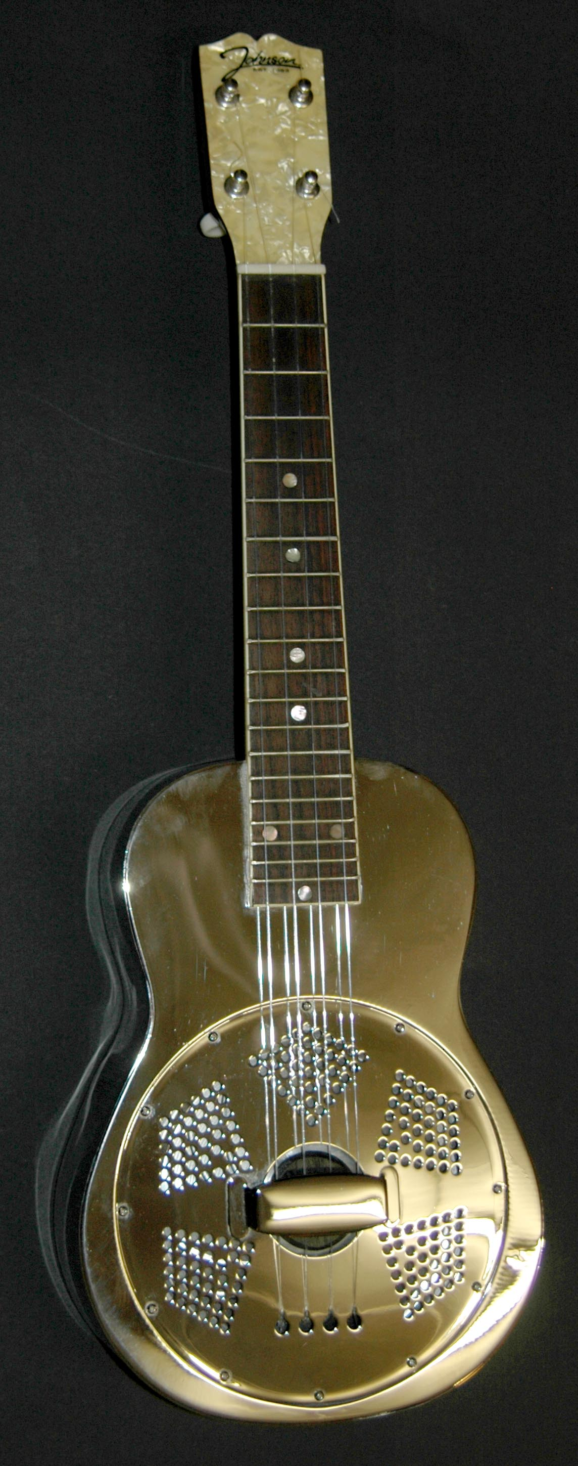 Johnson Resonator Ukulele JM-980